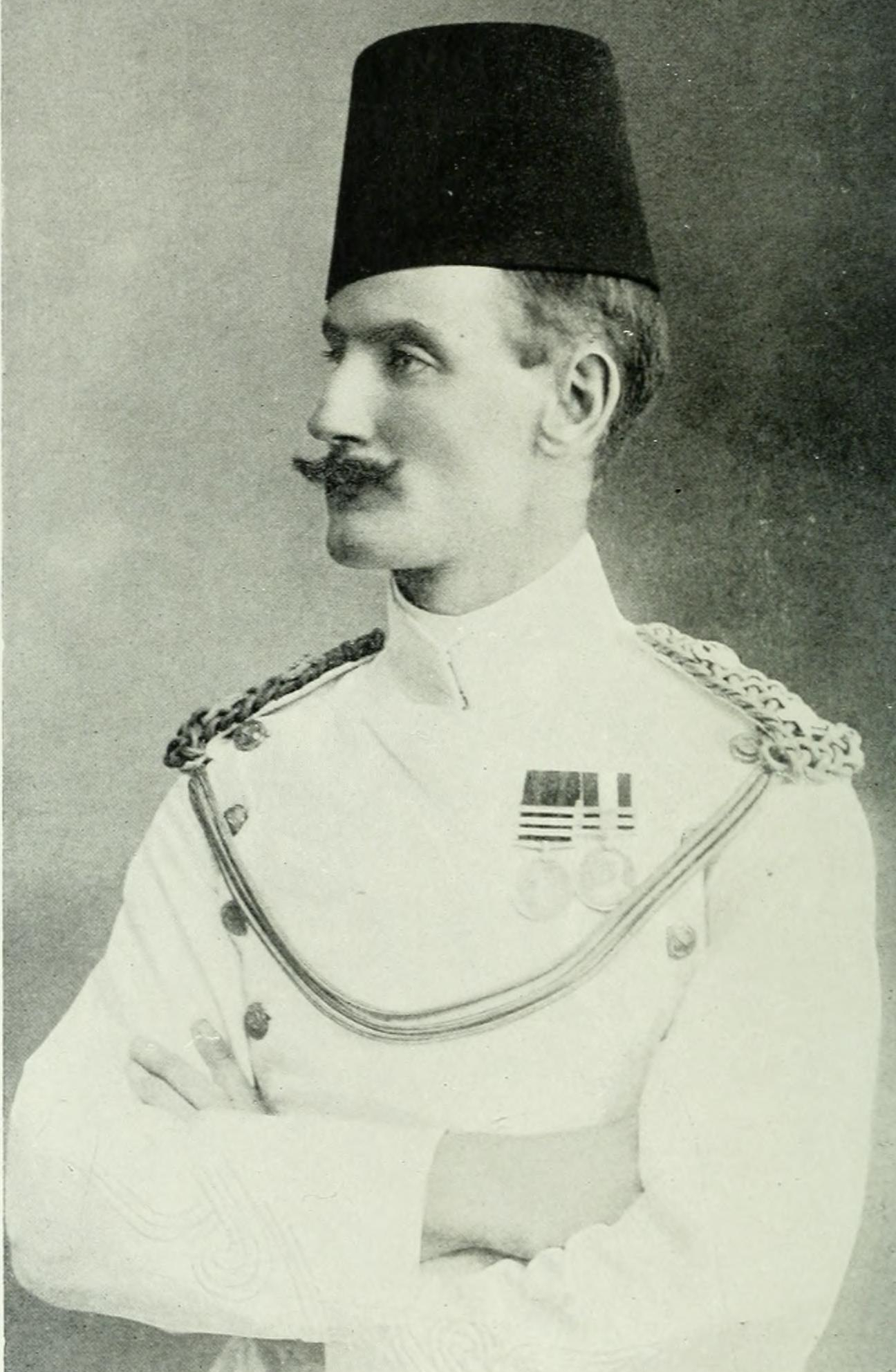 David Edward Charles Comyn, British colonial officer in Bahr El Ghazal (Southern Sudan) in the 1900s.